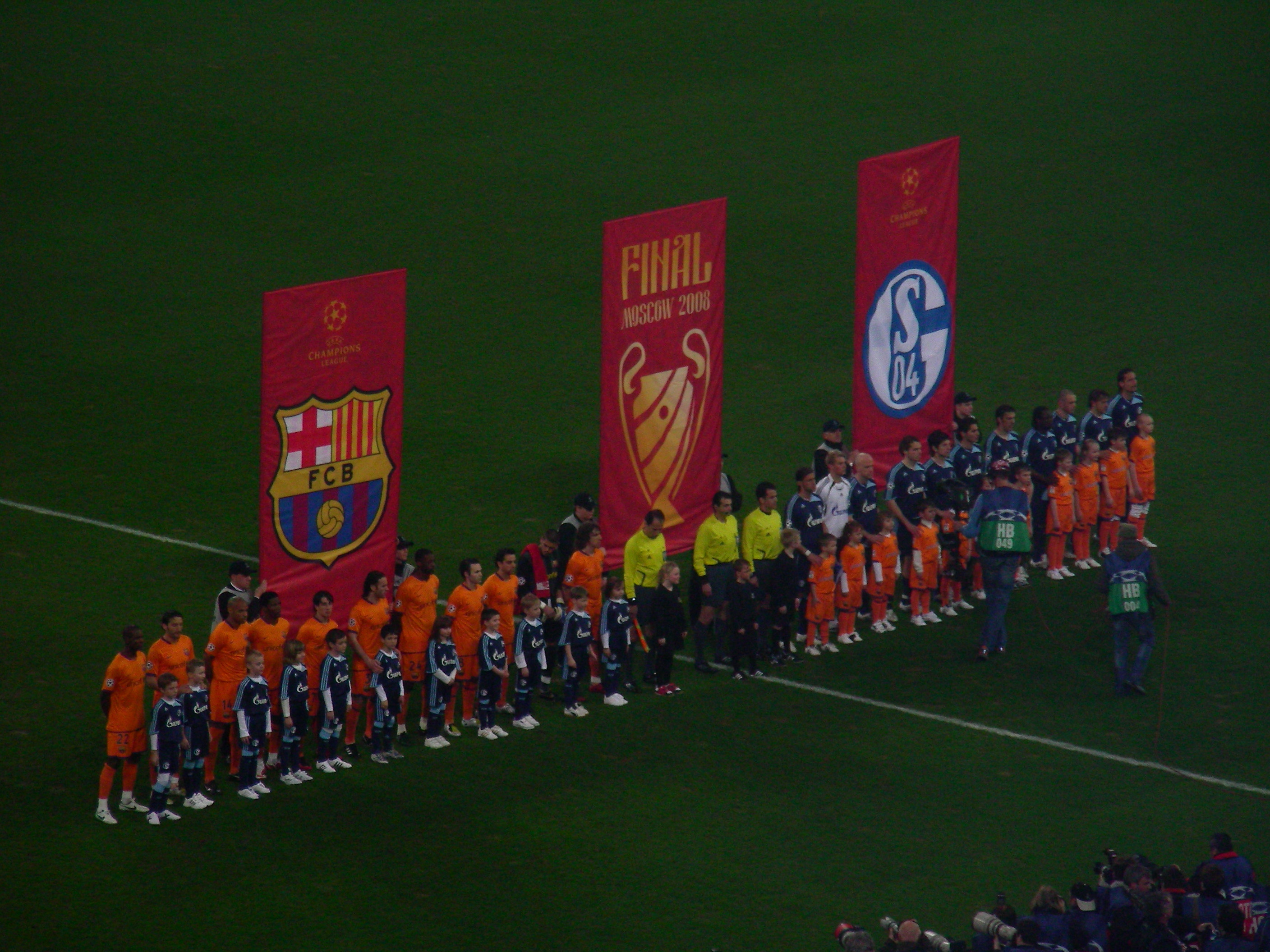 2007-08 Champions League match between Schalke 04 and FC Barcelona in Gelsenkirchen. Result was 0-1.